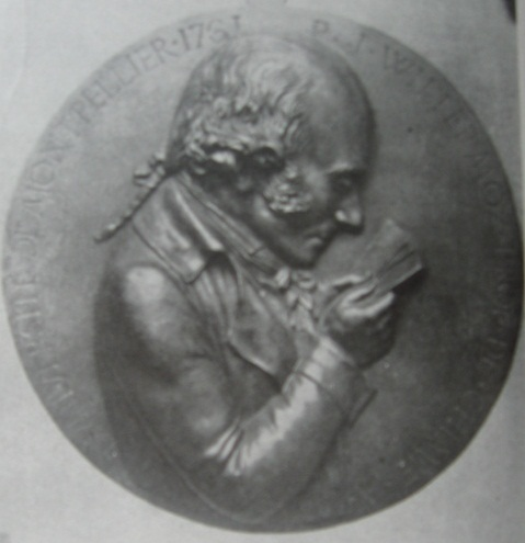 bronze medal